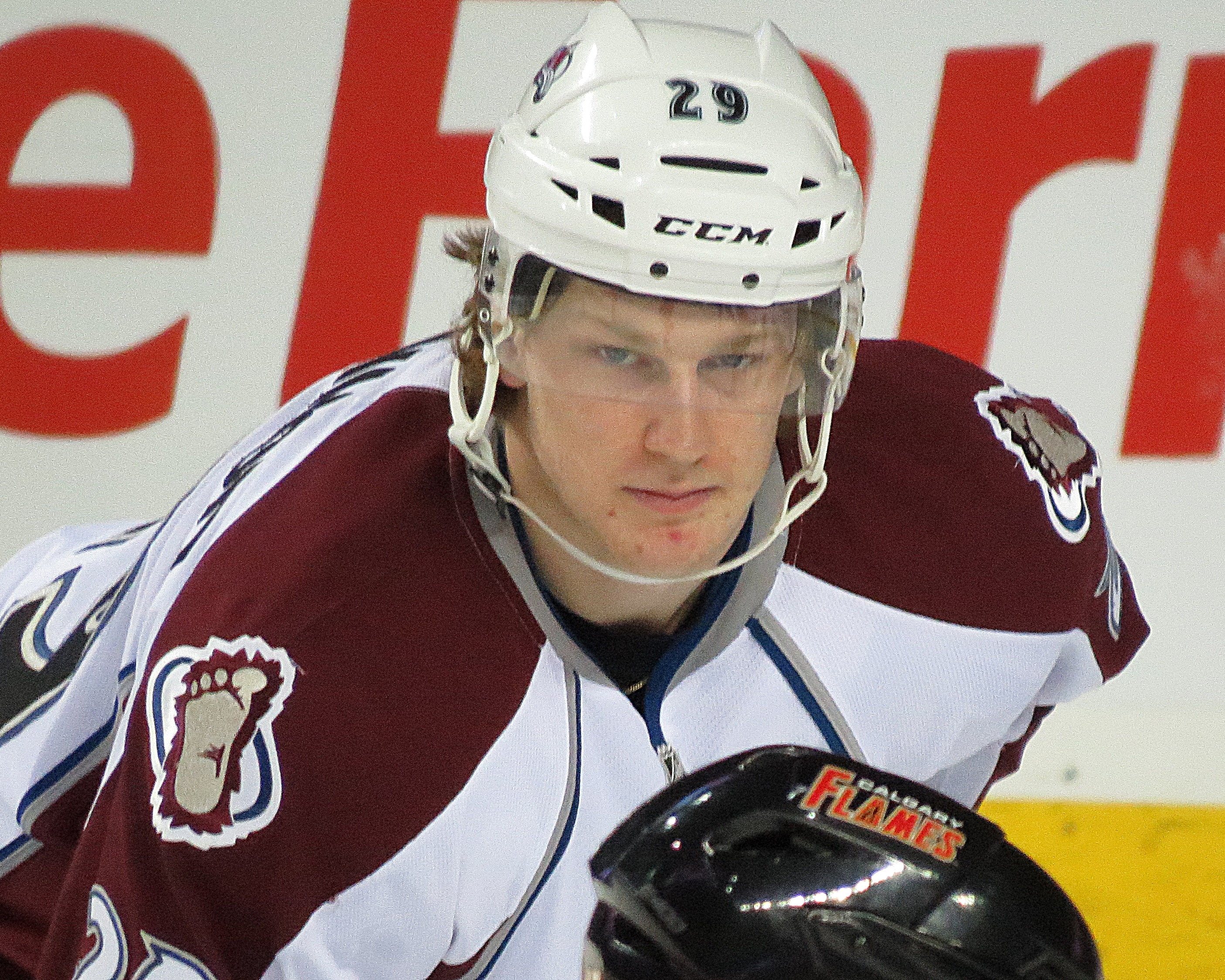 Nathan MacKinnon of the Colorado avalanche during the 2013–14 NHL season.